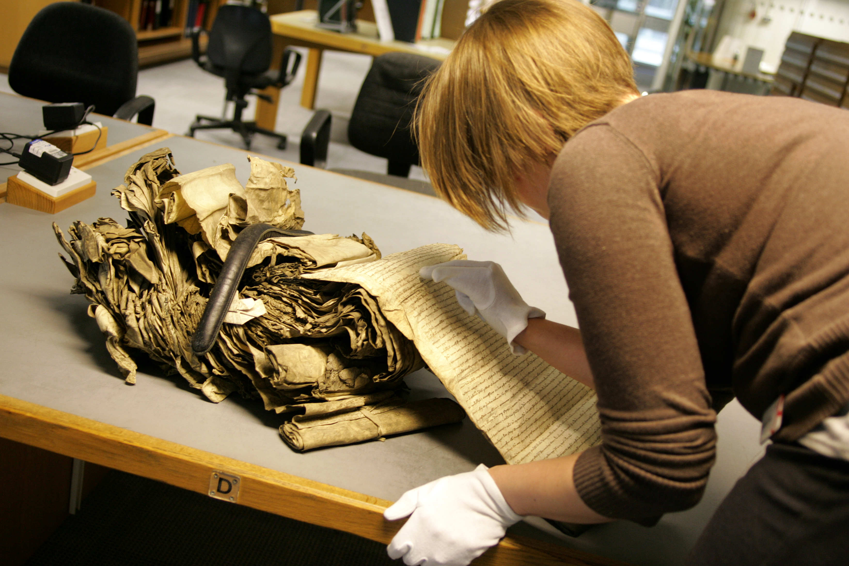 A researcher working with delicate resource at The National Archives